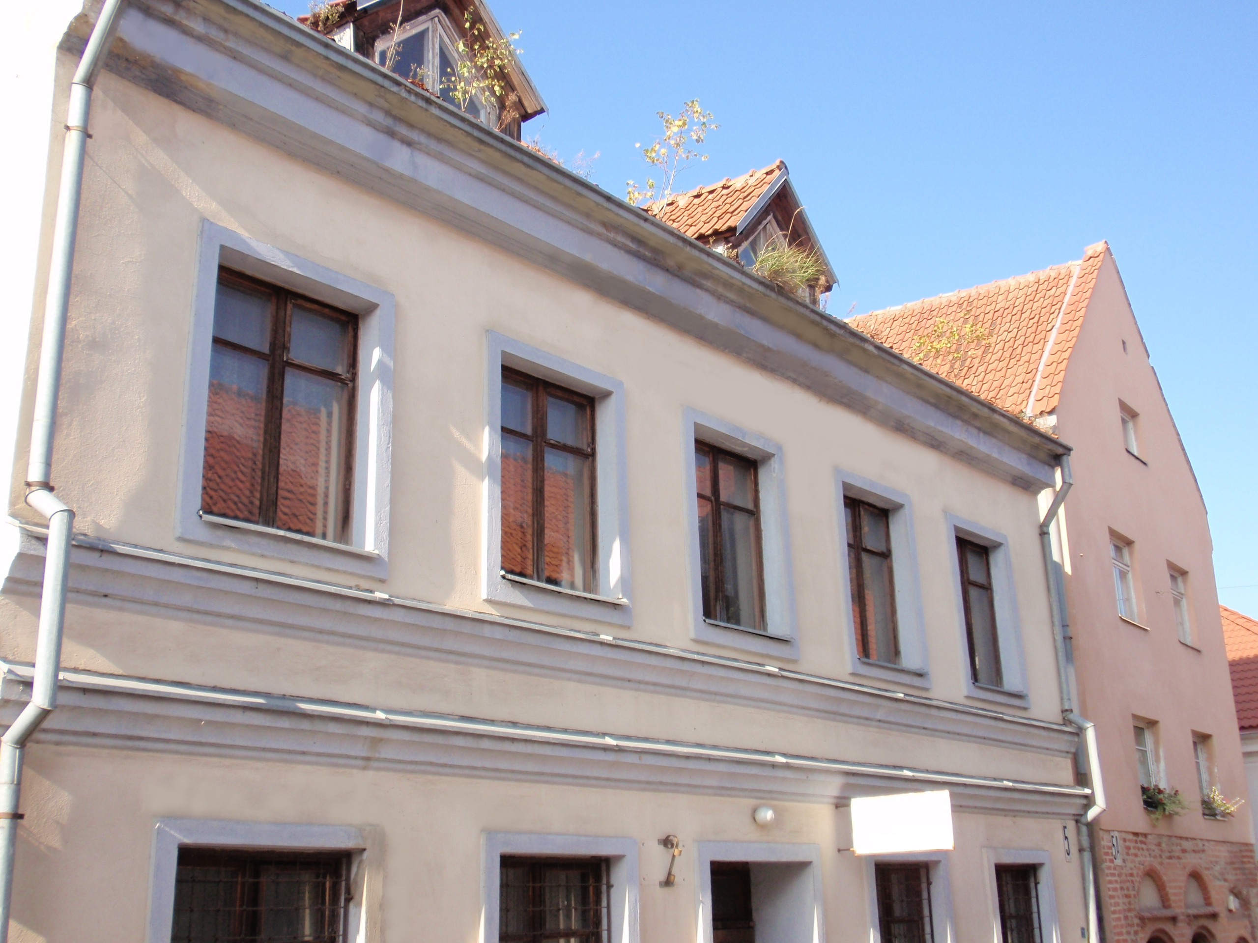 the historical house "Zamenhofo gatvė 5", home of Aleksandr Silbernik, father-in-law of L. L. Zamenhof, now seat of Lithuanian Esperanto-Association, in the old town of Kaunas.